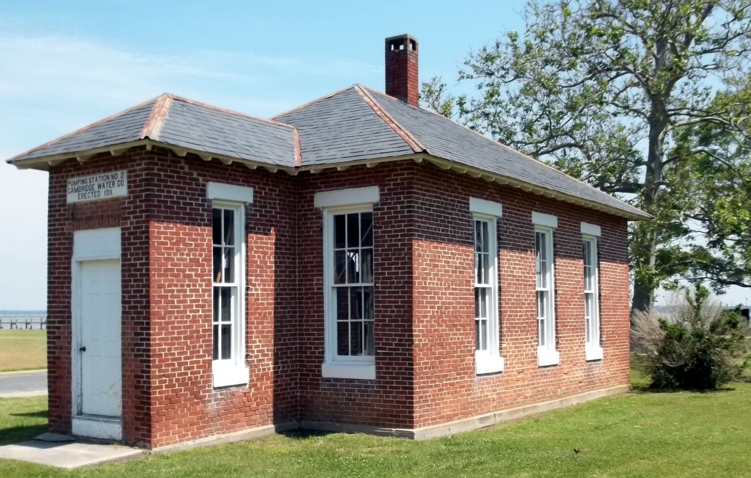 D-699. Early pump station constructed in Cambridge Maryland, in Cambridge Historic District, Wards I and III